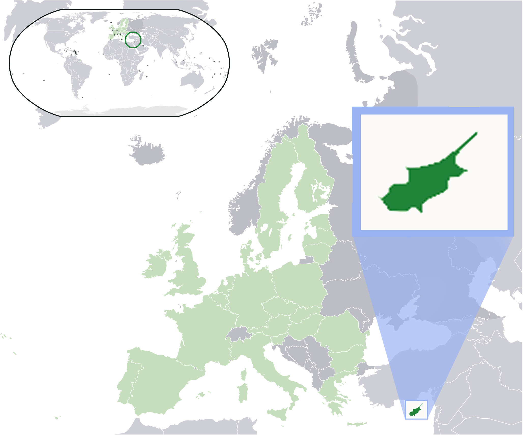 Location map: Cyprus (dark green) / European Union (light green) / Europe (dark grey); inspired by and consistent with general country locator maps by User:Vardion, et al